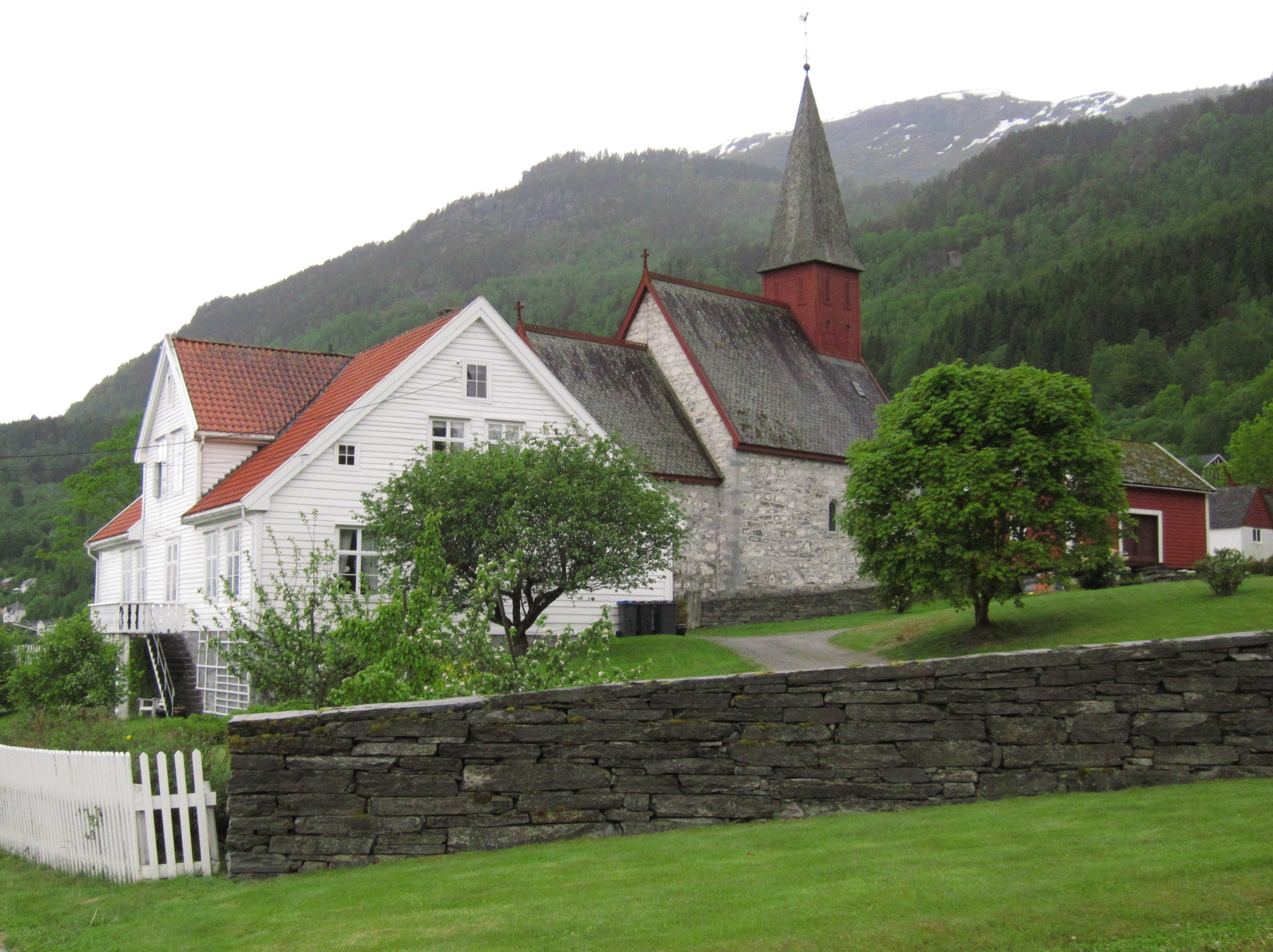 Dale church in Luster, parsonage (the parish priest's residence), white wooden building, constructed 1730-34.